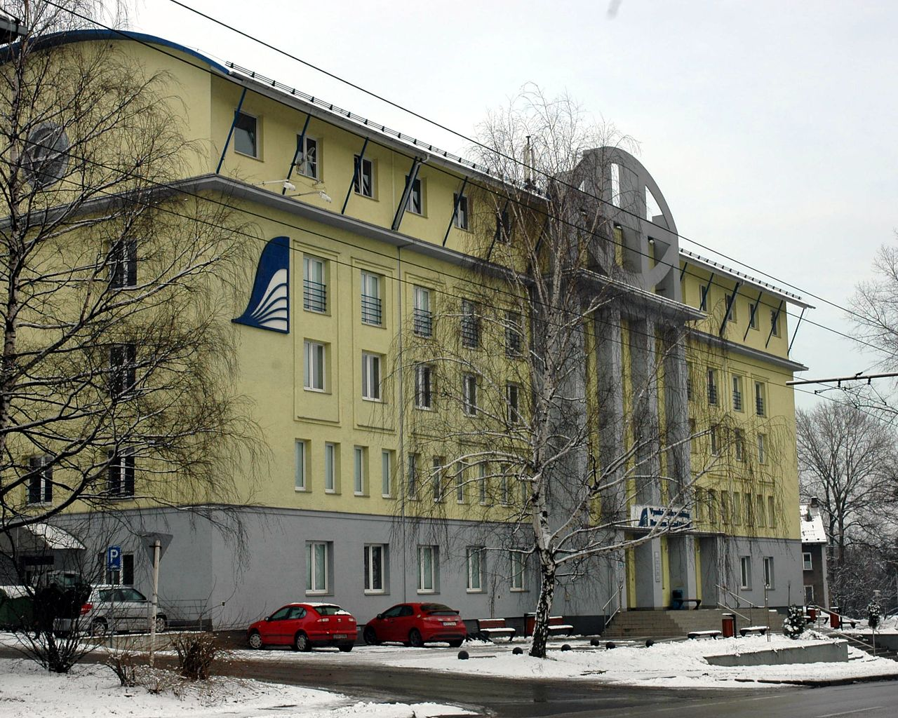 Building of the Business School Ostrava